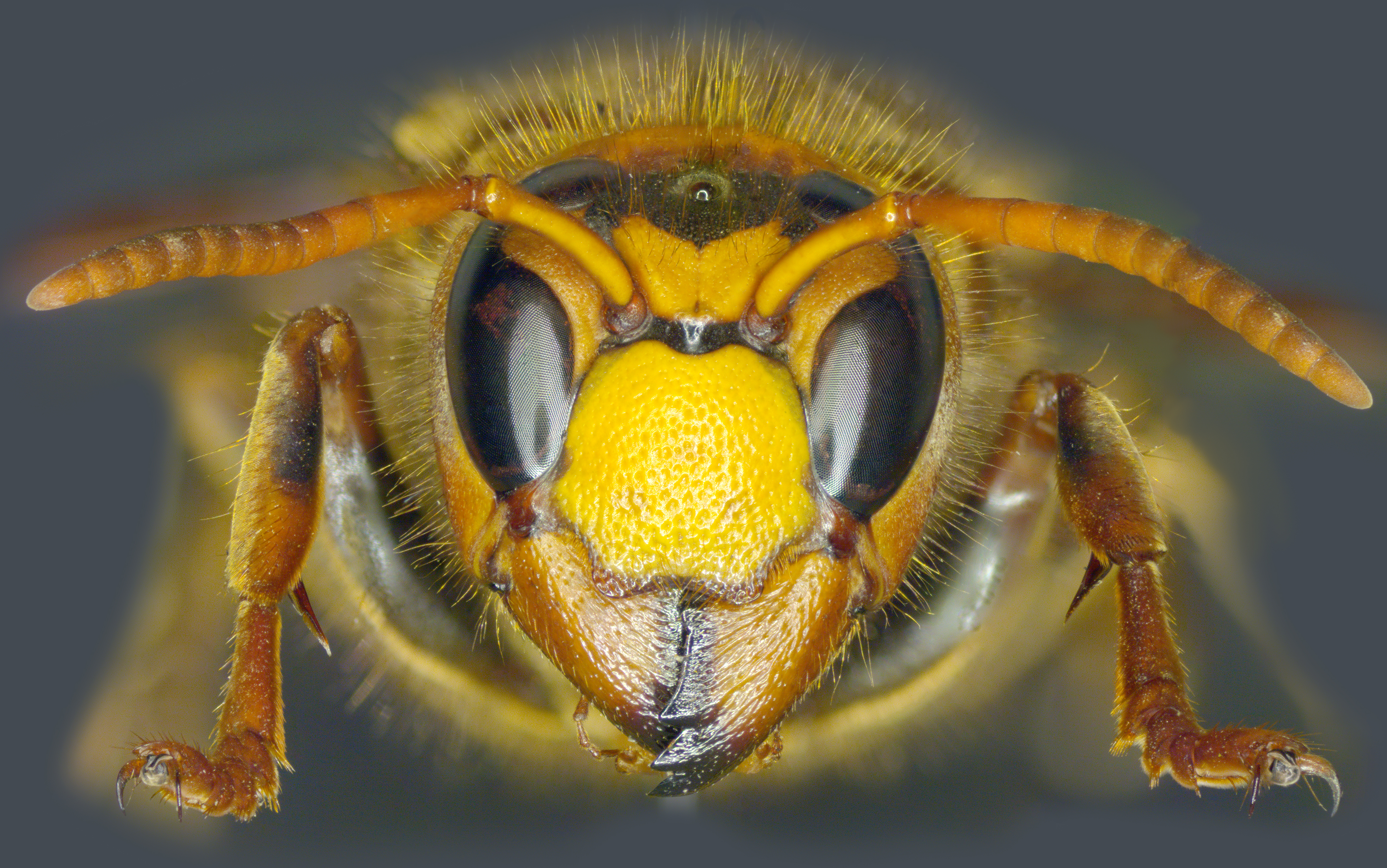 European hornet (Vespa crabro Linnaeus, 1758) (Hymenoptera, Vespidae). Queen.